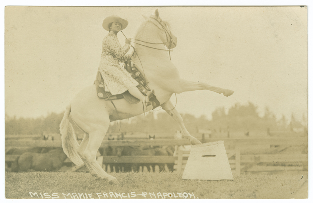 Title: Miss Mamie Francis & Napoleon Date: ca. 1915-1922 Part Of: of cowgirl postcards/mode/exact Physical Description: 1 photographic print (postcard): black and white File: ag1986_0585_60c.tif Rights: Please cite DeGolyer Library, Southern Methodist University when using this file. A high-resolution version of this file may be obtained for a fee. For details see the web page. For other information, . For more information and to view the image in high resolution, View the